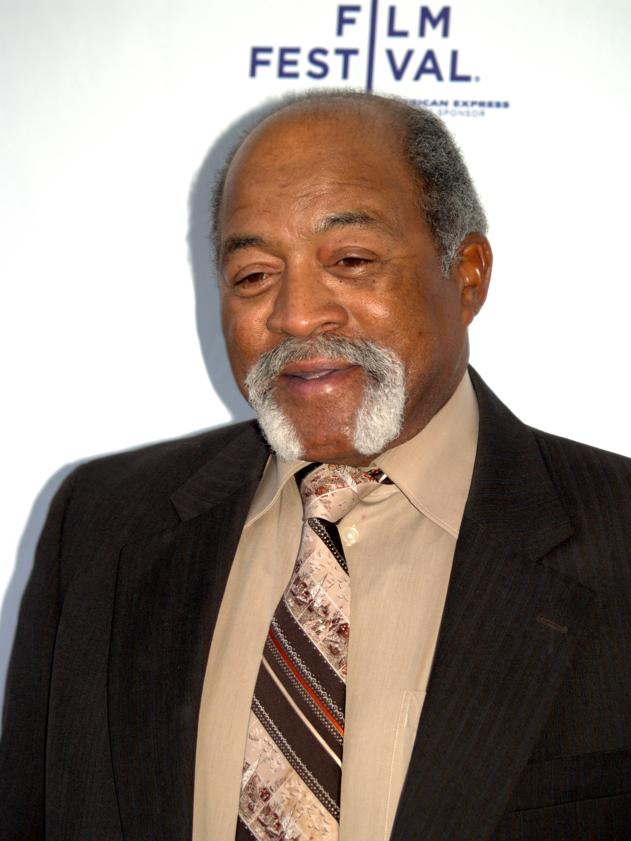 Luis Tiant at the 2009 Tribeca Film Festival premiere of The Farrelly Brothers' Lost Son of Havana.